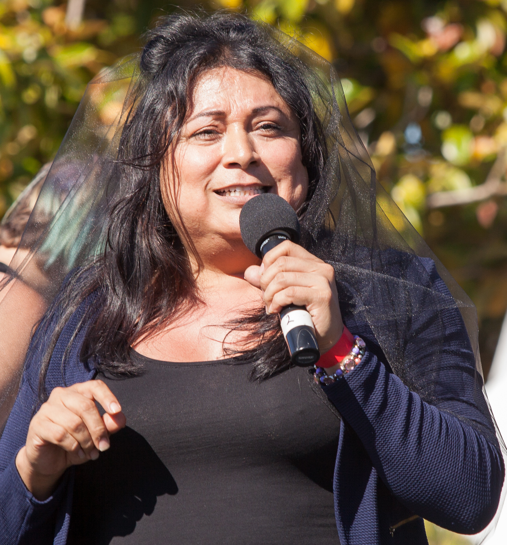 TransLatina activist Jennicet Eva Gutiérrez​ speaks on stage at the 2018 Trans March San Francisco.